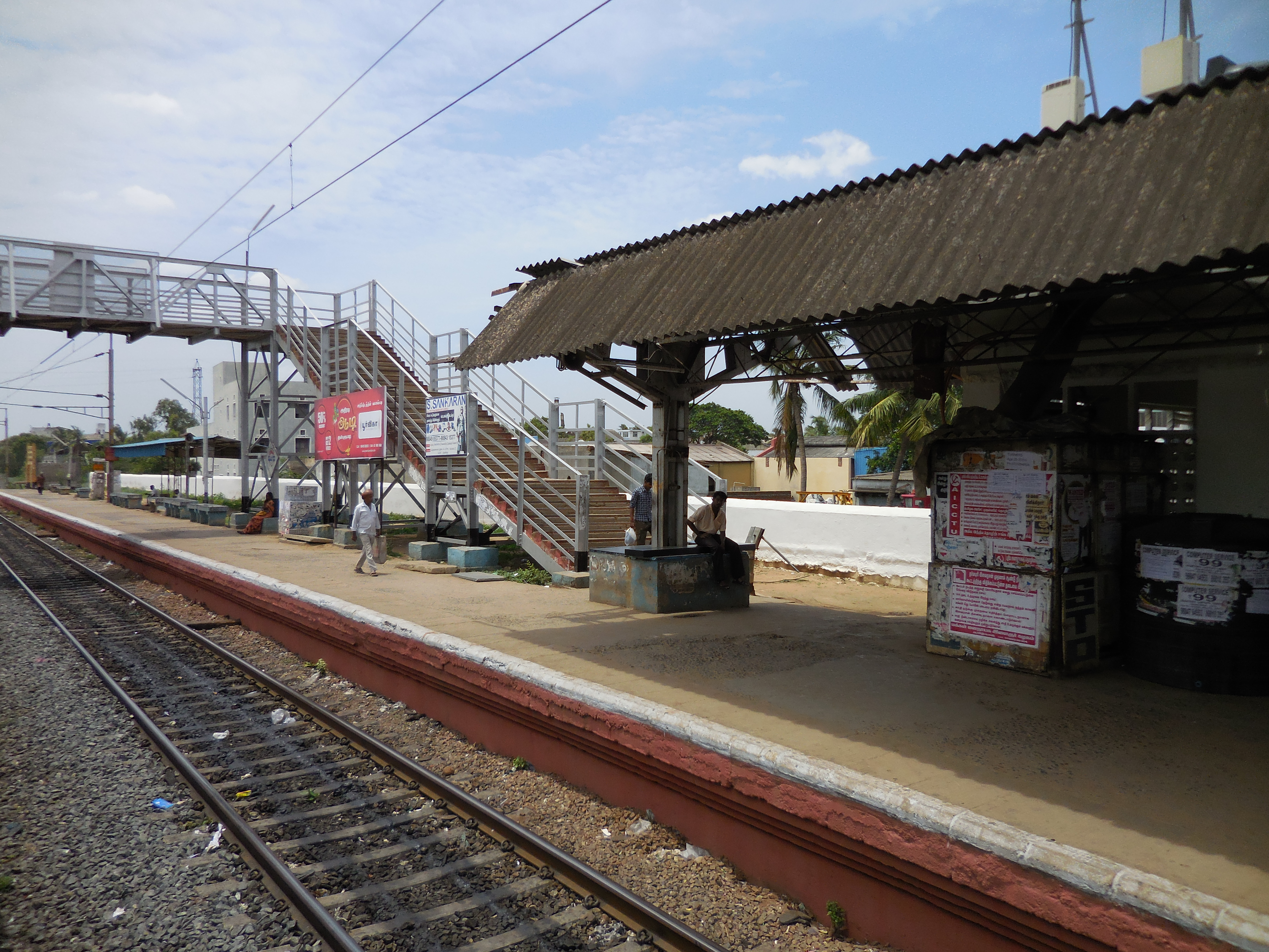 A view of foot over-bridge at Pattaravakkam Station, Chennai, towards east, taken on 15 July 2014 at noon.